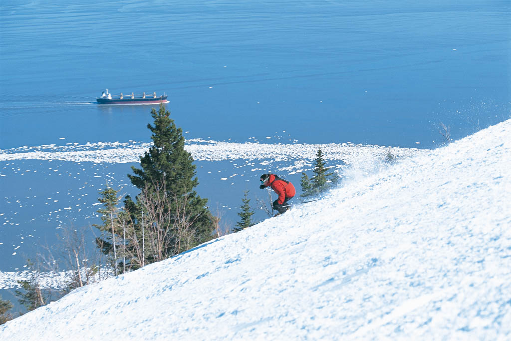 The ship La Charlevoix on the Saint-Lawrence river, close to Petite-Rivière-Saint-François in Quebec. Picture of Le Massif by Marc Archambault, photographer.